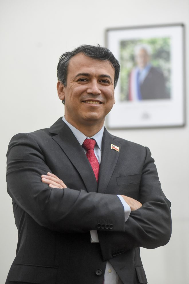 Official portrait of Emardo Hantelmann as Undersecretary of Government of Chile in March 2018